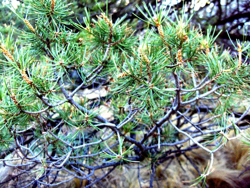 Mexican Pinyon foliage, Big Bend National Park, Texas